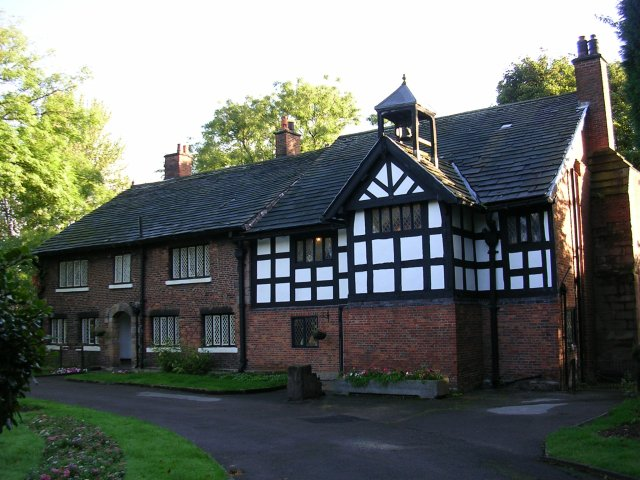 Clayton Hall, a 15th century Grade II* listed building and Scheduled Ancient Monument in Clayton, Greater Manchester